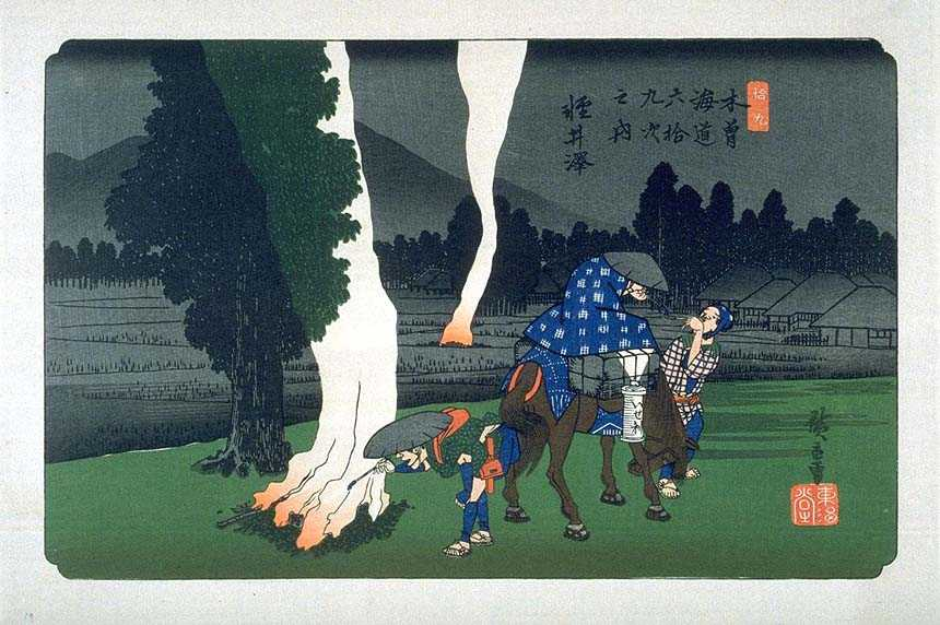 From Hiroshige's series Sixty-nine Stations of the Kisokaido (1834-1842), view 19 and station 18 at Karuisawa.